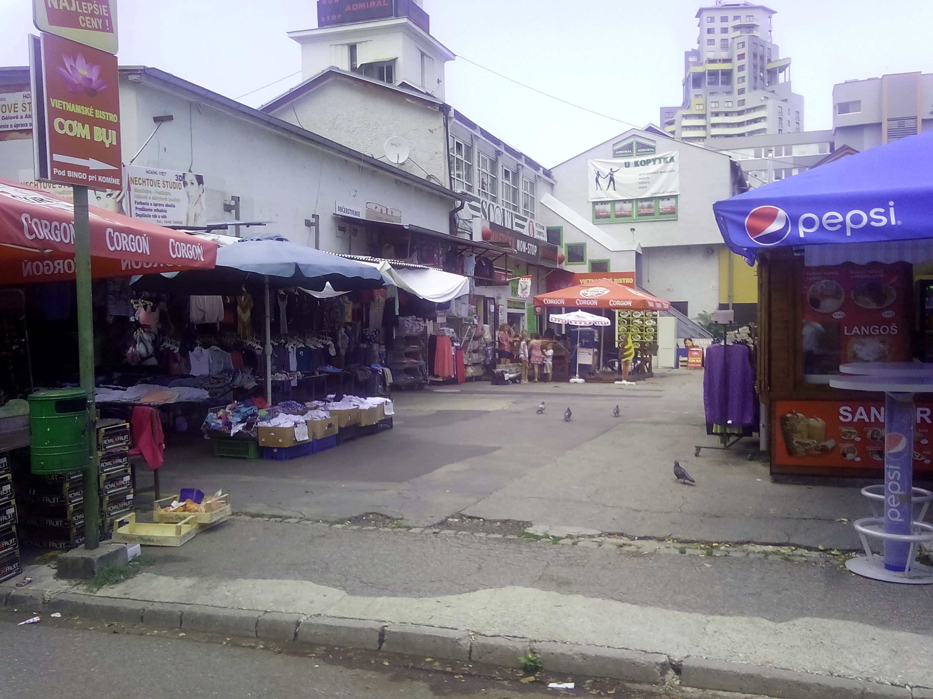 City market on Mileticova street in Bratislava